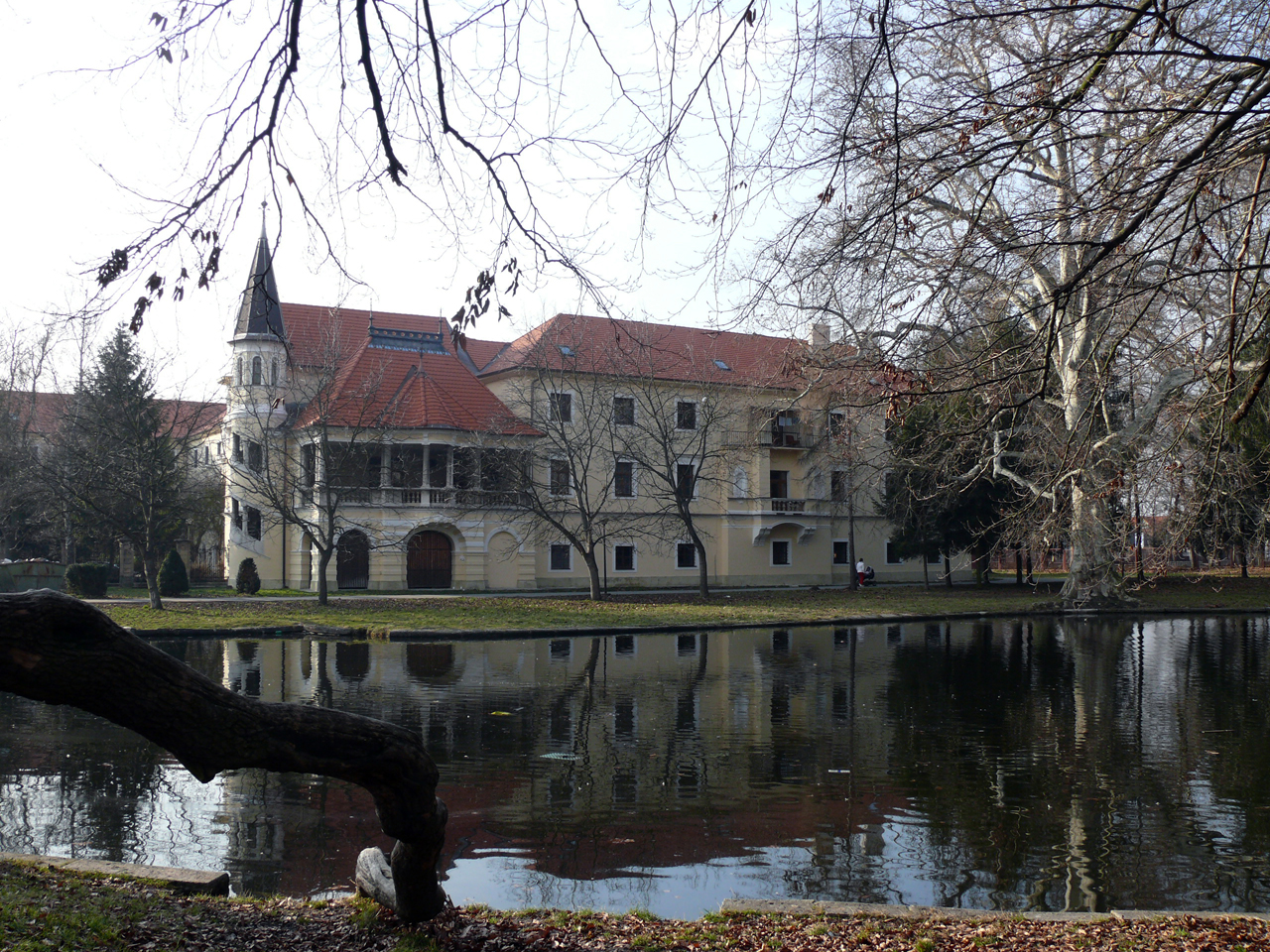 Manor house in Stupava This medium shows the protected monument with the number 106-540/2 in the Slovak Republic.